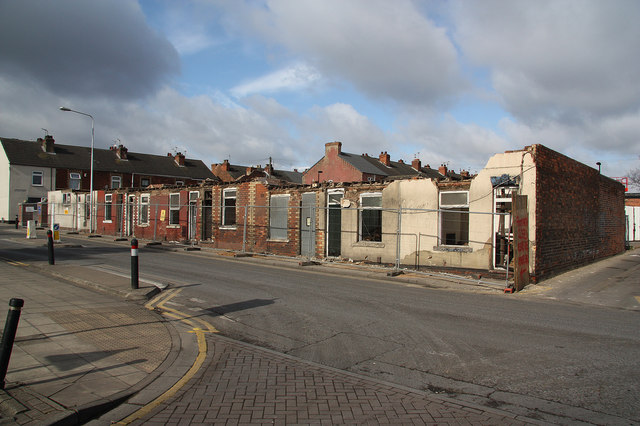 West Street demolition. Terraced houses 1197094 being demolished on West Street